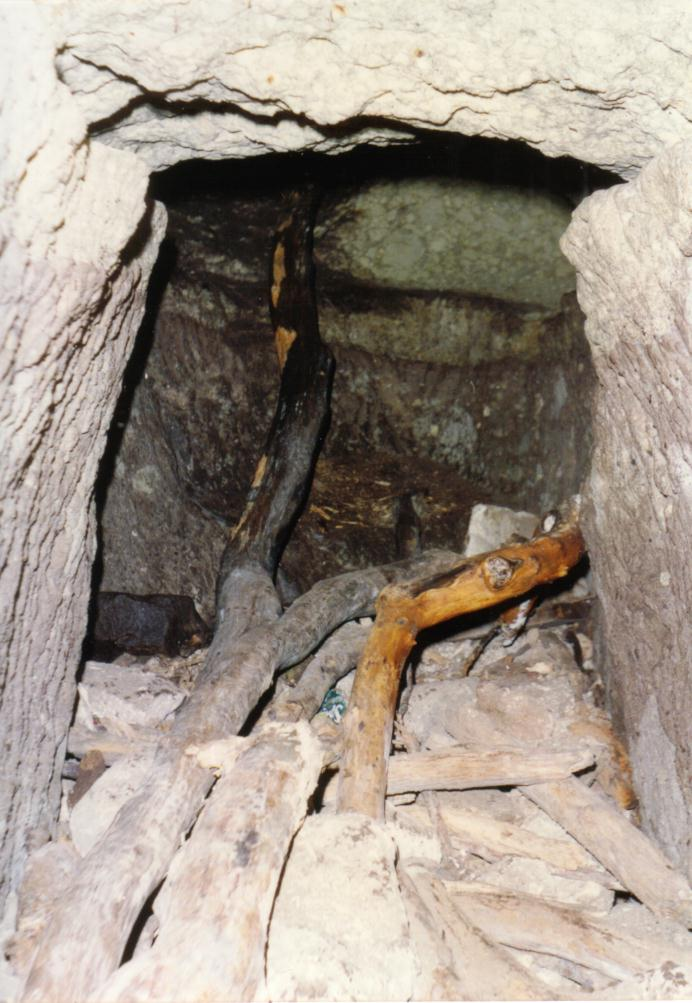 Weislich Cave from inside, Pomáz